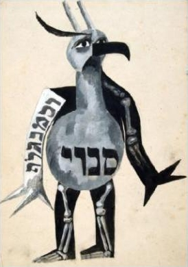 Ignaty Nivinsky, Amulut (costume design for The Golem) (1925)